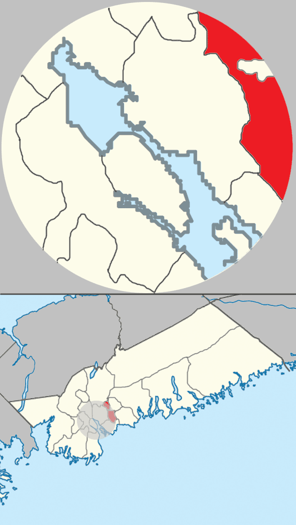 Updated map of Cole Harbour Westphal planning area in Halifax, Nova Scotia to standard colours, higher resolution, using